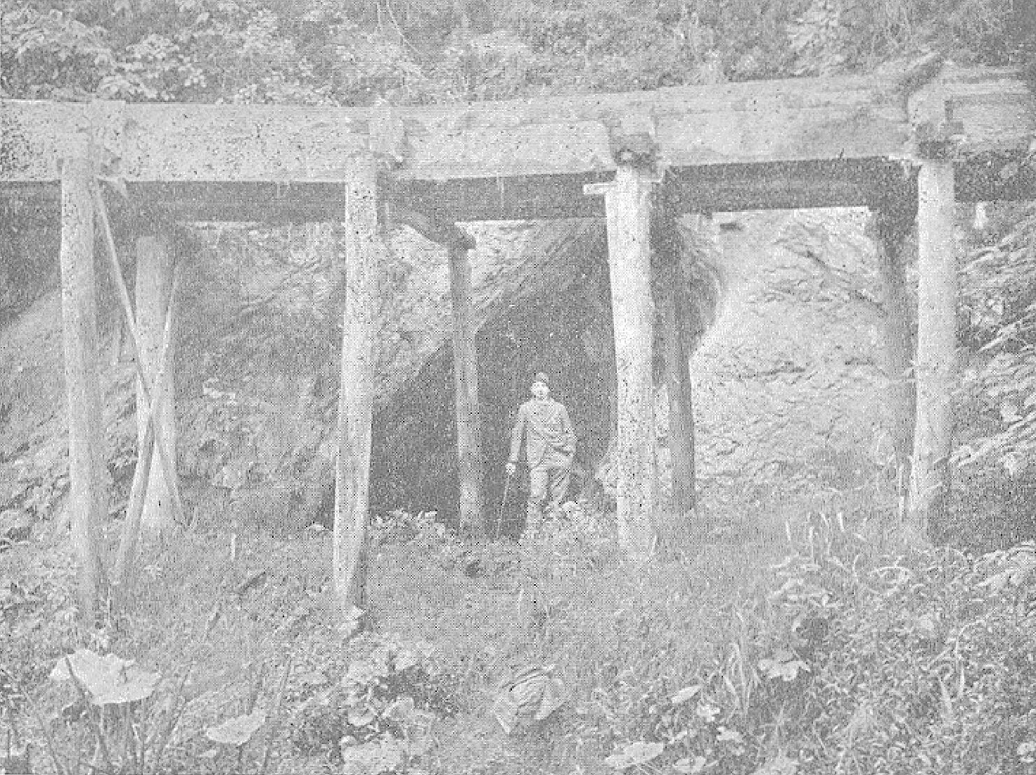 Herman Ottó Cave entrance, Miskolc, Hungary.